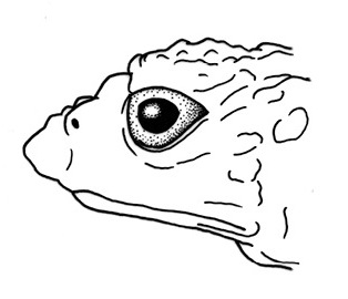 Head shape in lateral view of Osornophryne guacamayo male, QCAZ 40106.